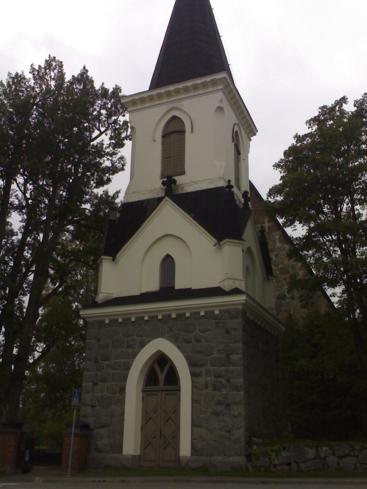 Belfry of the Vanaja church in Hämeenlinna, Finland